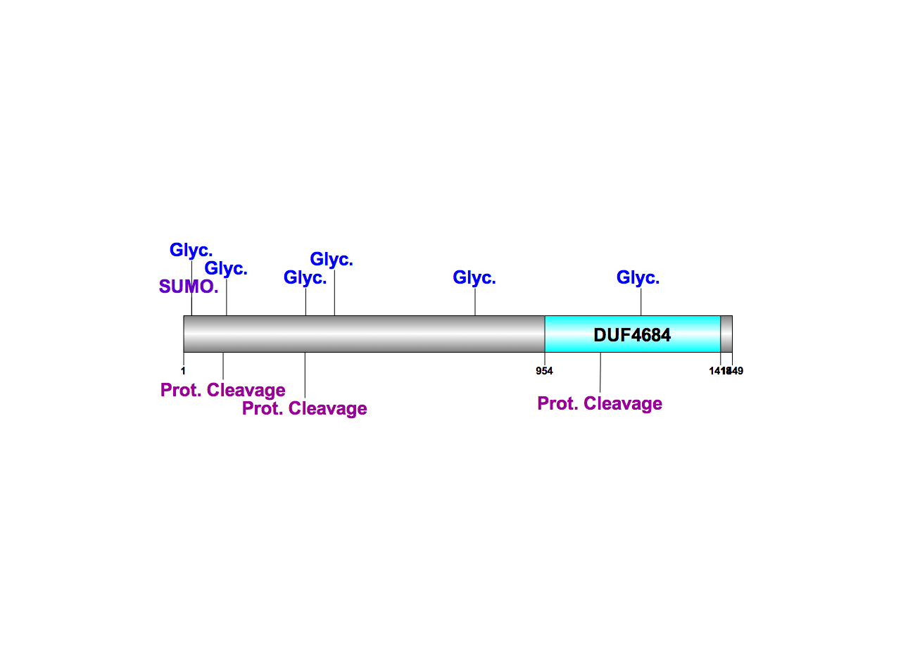 image created using the dog2.0 software of the post-translational modfications of c1orf167